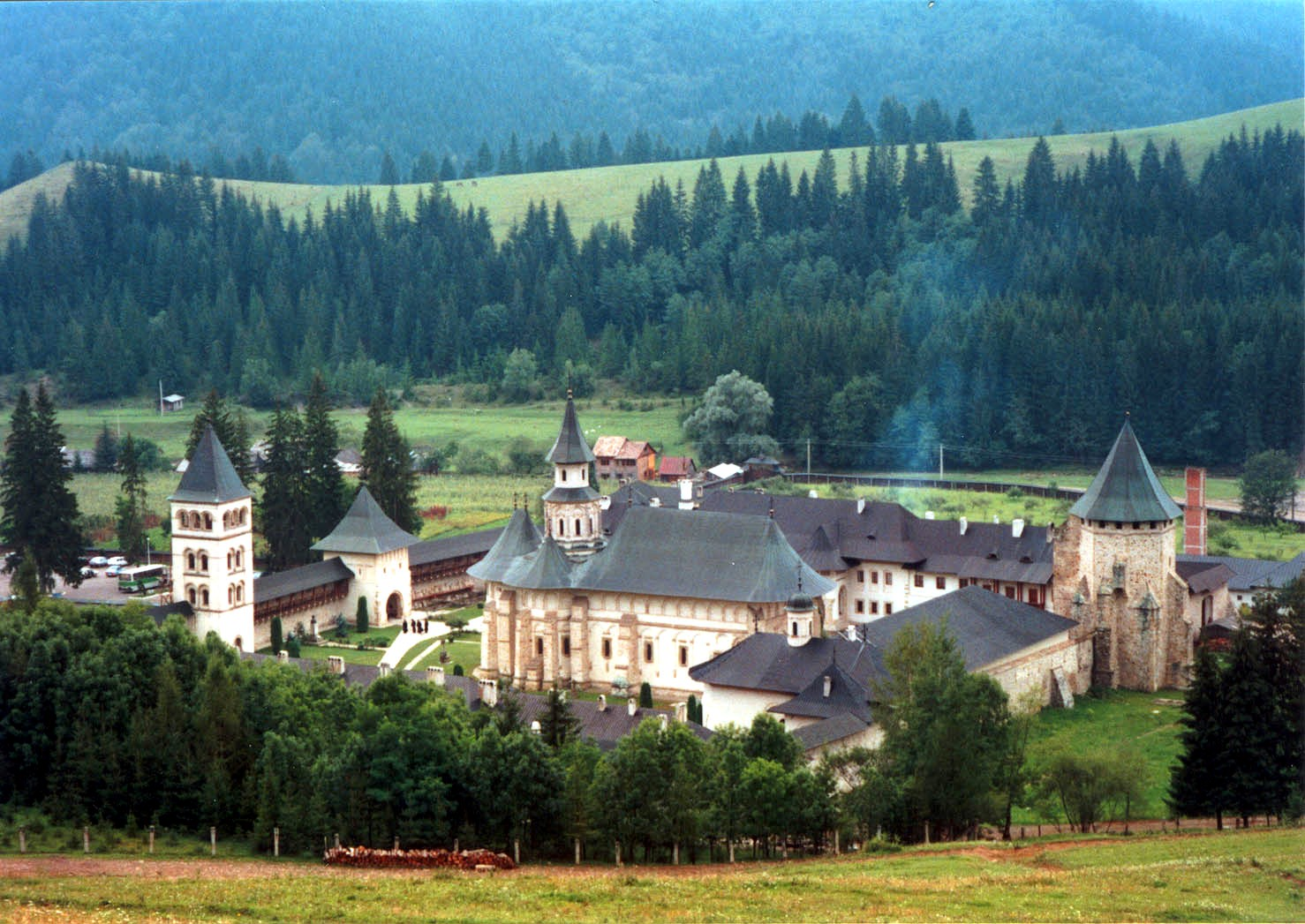 General view on the Putna Monastery